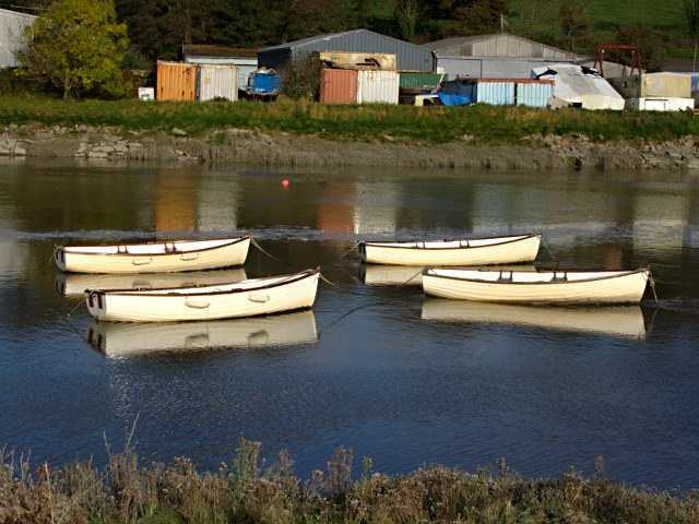 Four White Boats Four boats moored in the River Camel at high tide. On the far shore is a jumble of boatyard sheds.